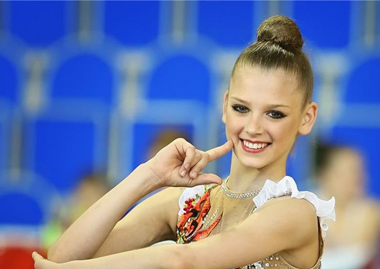 Aleksandra Soldatova, a a Russian rhythmic gymnast.